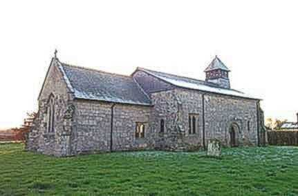 St Michael's parish church, Thornton, East Riding of Yorkshire, England, seen from the northeast